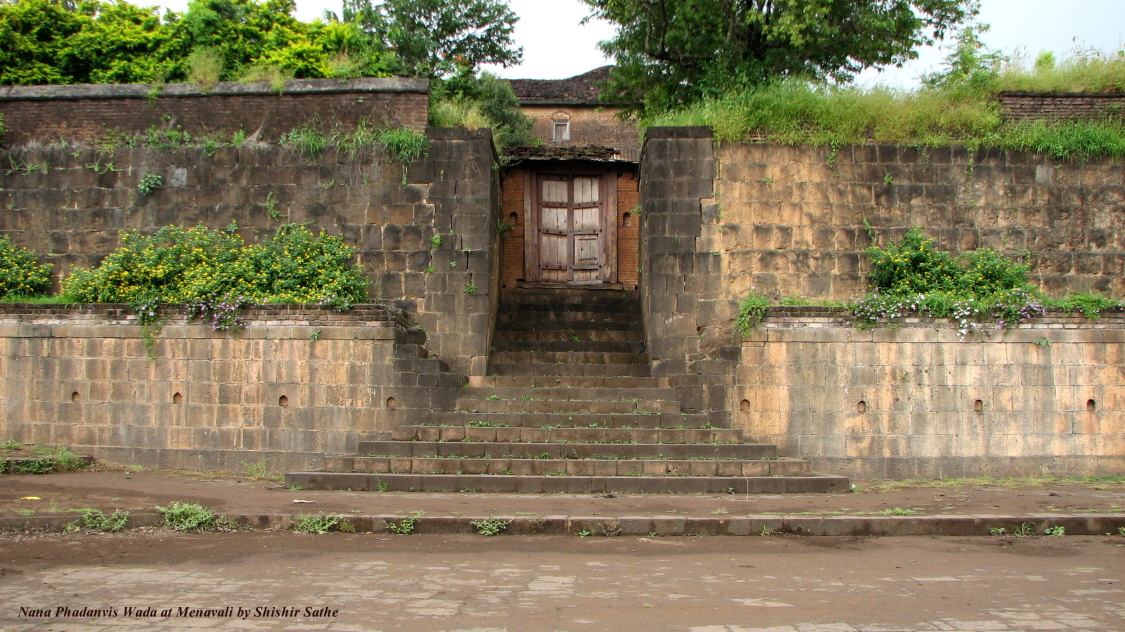 One of the many Entrances to the Nana Phadanvis Wada, Menavali, Maharashtra, India